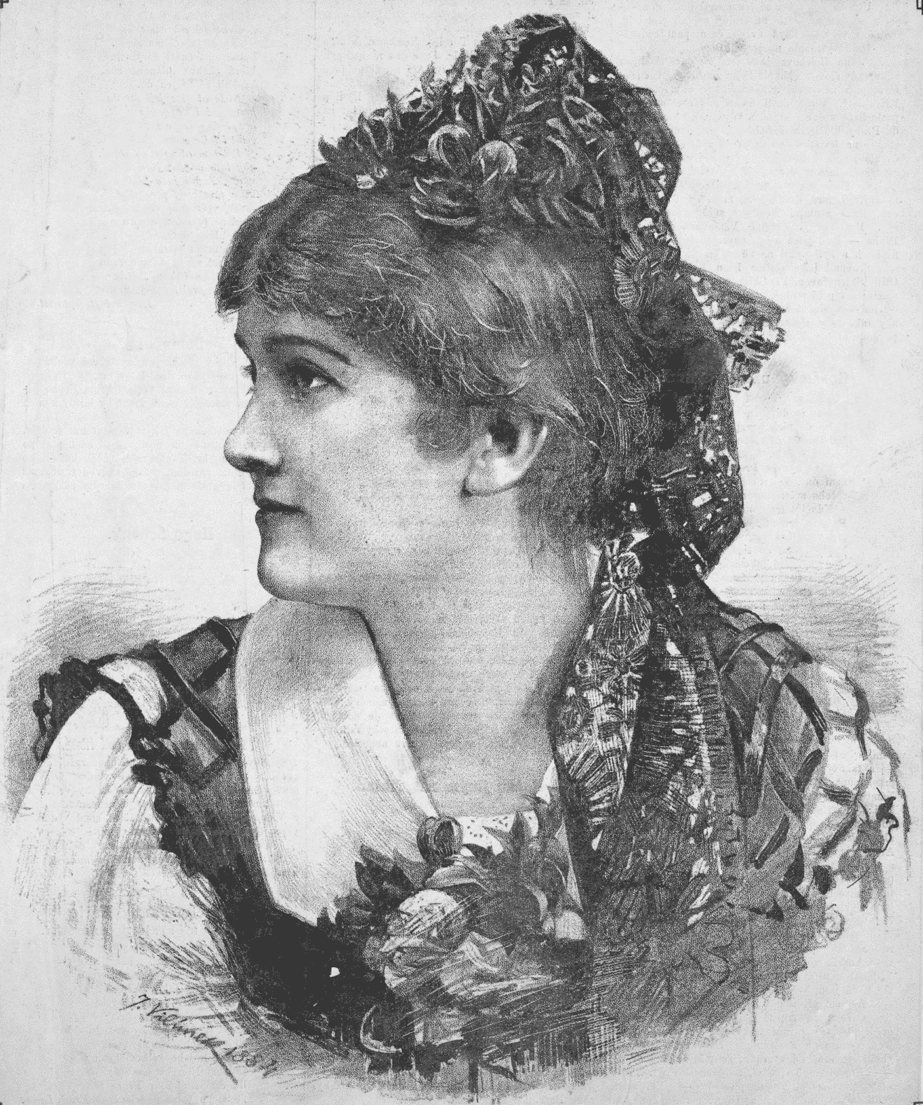 Portrait of Irma Reichová (1859 - 1930), Czech opera singer.